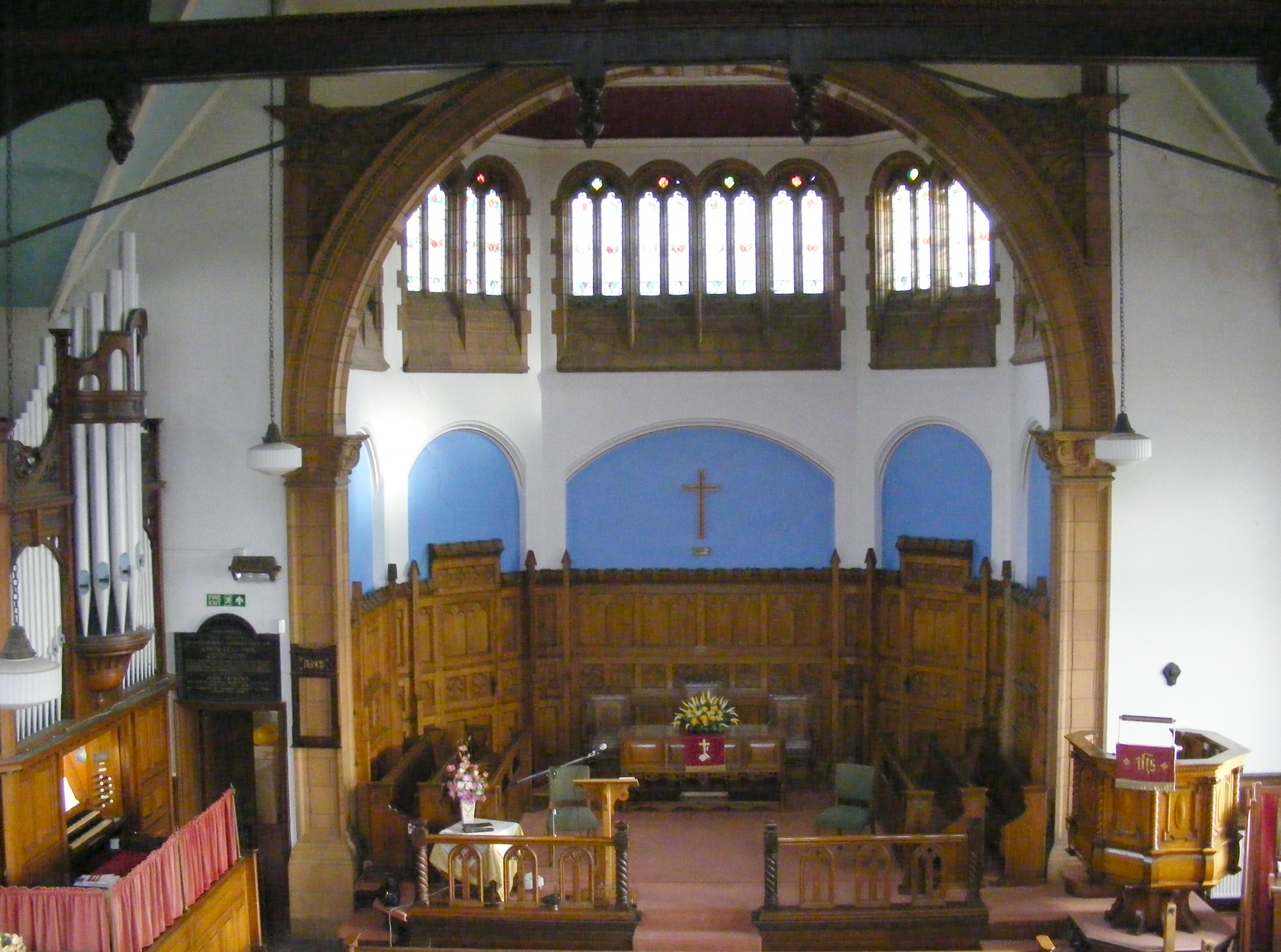 Interior of Cradley Heath Baptist Church, 1904 building from Corngreaves Road.